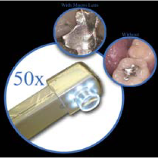 Intra Oral Camera with 50X Macro Lens